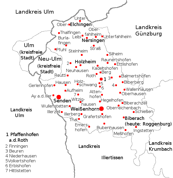 the district of Neu-Ulm before 1972 with all municipalities – map